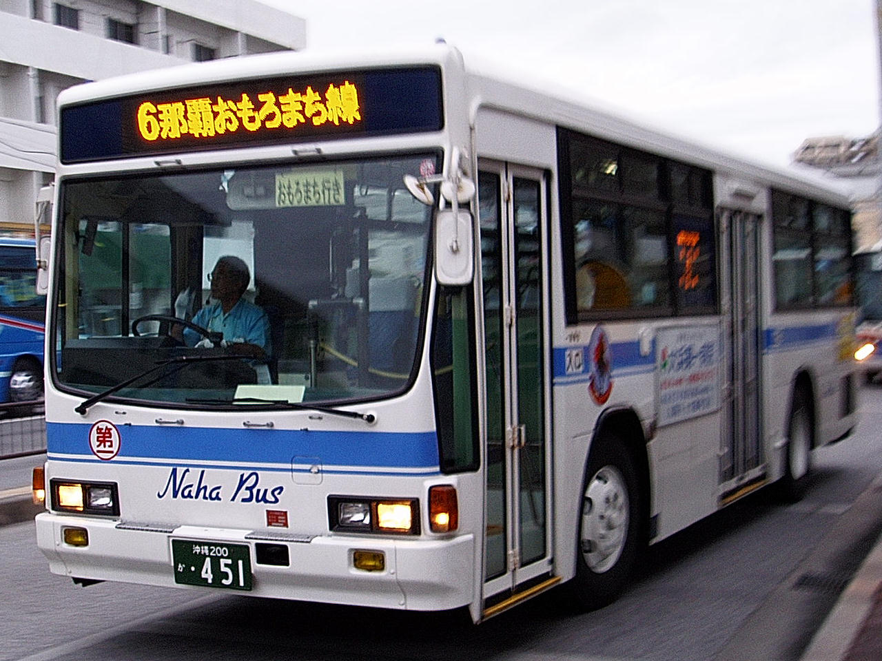 Naha Bus